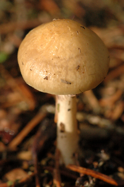 Psilocybe coprophila from Commanster, Belgium. If you think this is a different taxon, please contact James Lindsey.